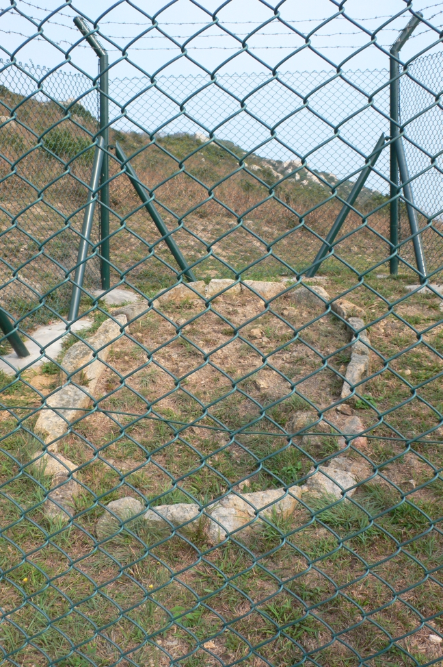 The Stone Circle at Fan Lau is located in Lantau Island of Hong Kong